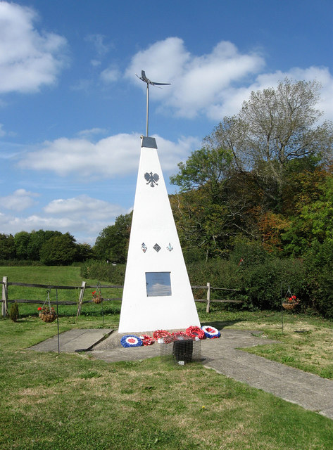 Polish War Memorial Dedicated to 131 Wing who flew from nearby Chailey Airfield during World War Two. 131 Wing consisted of the following Spitfire fighter squadrons: 302 City of Poznan, 308 City of Krakow fighter squadron and 317 City of Wilno and were the only unit to fly from Chailey which was an Advanced Landing Ground (ALG) set up in readiness for the invasion of Europe. The memorial remembers the two casualties of the group and was unveiled in 2000 next to the Plough Inn at Plumpton Crossways. Although a mile or two down the road from the site of the airfield the original Plough Inn was demolished to make way for it and moved to its current site in 1943.